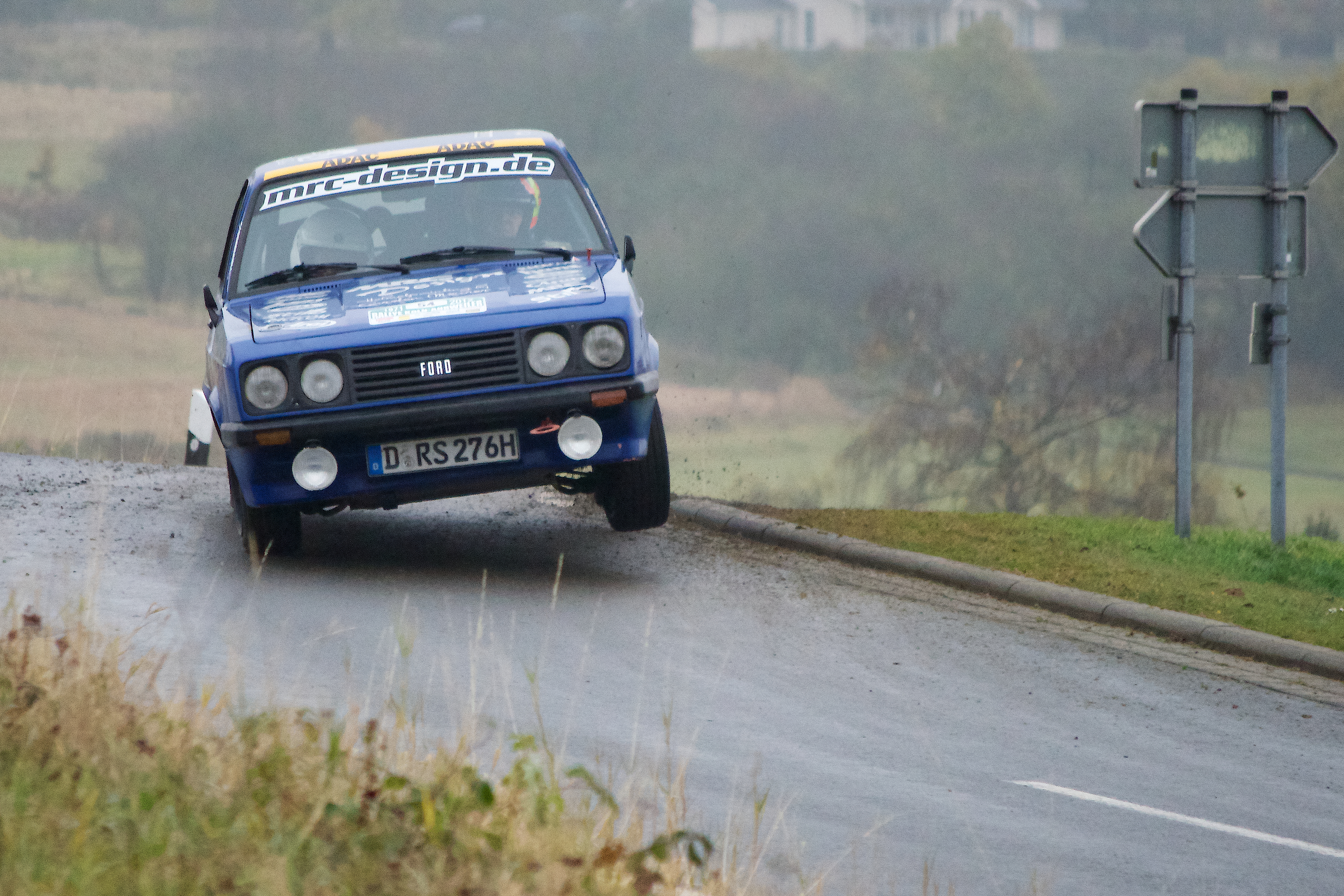 Ford Escort RS 2000 driven by Carsten Meurer and co-driver Ulrich Selhorst during the 2012 Rallye Köln-Ahrweiler in Germany